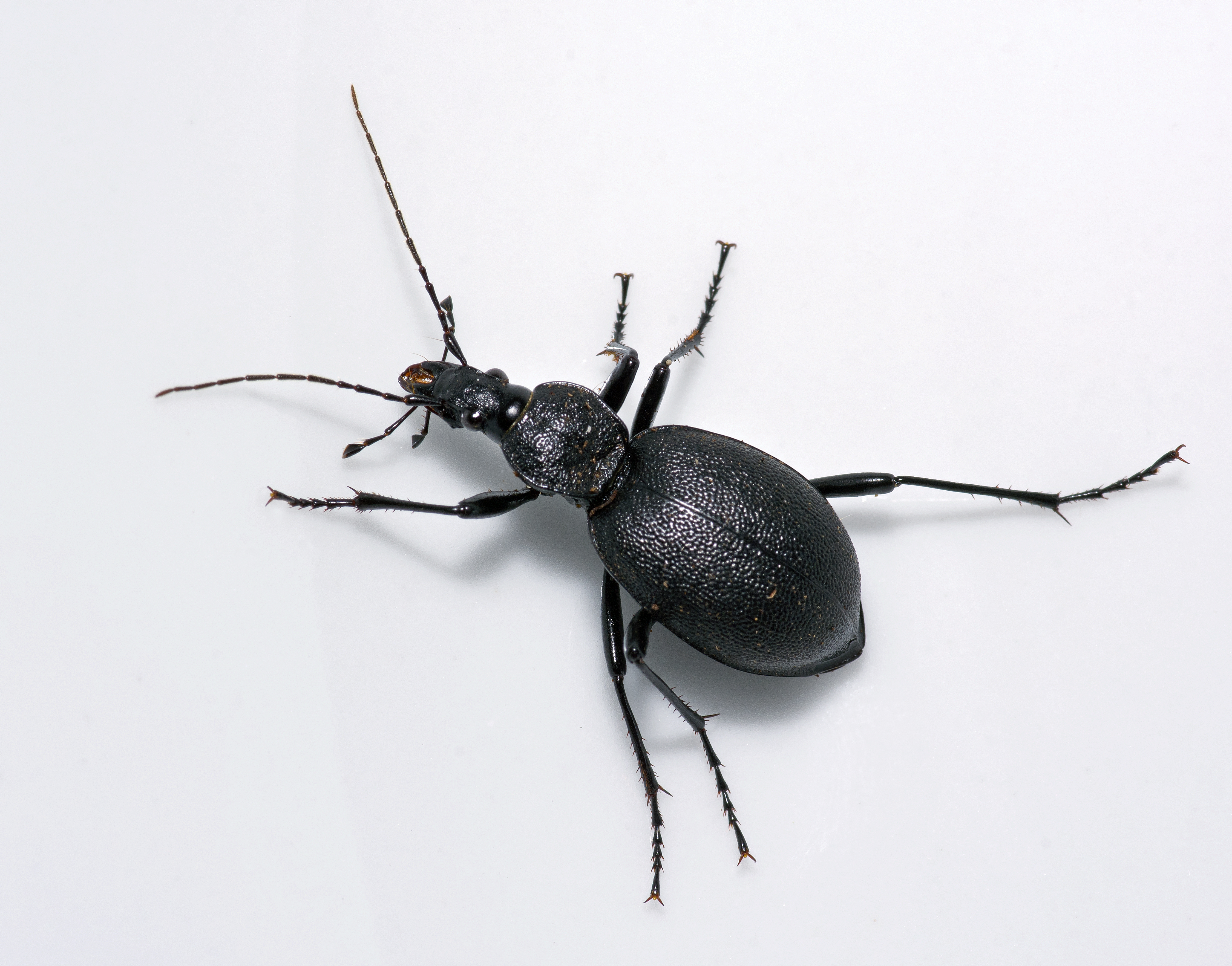 You may be wondering how me and the beetles of Leicestershire are getting on. Well we're doing fine thanks, as I was saying to this Cychrus caraboides only recently. I love these big black tanks. They can shoot acids out of their anus at predators and buzz loudly when annoyed. As if that wasn't good enough - they eat snails! (Unfortunately only the little glass snails, not the big garden snails that have just eaten all those expensive plants you bought from the garden centre.) Still, what a nice beetle!